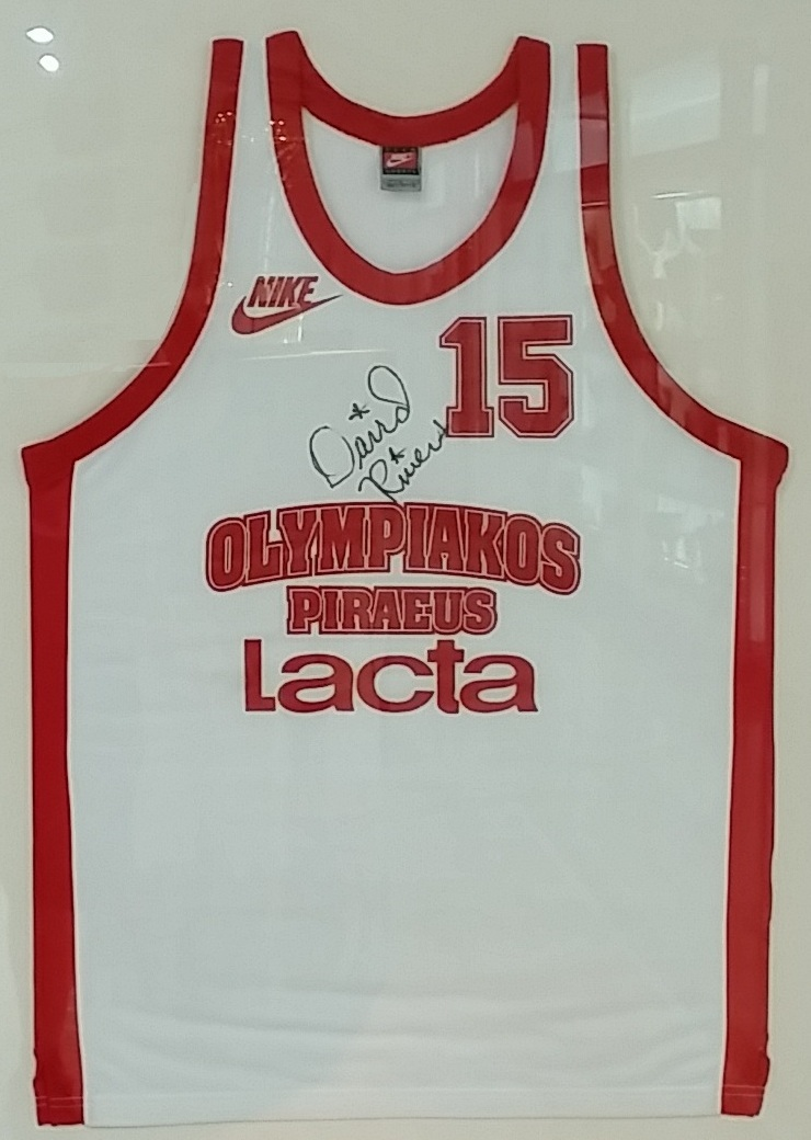 David Rivers shirt from 1997 Euroleague Final with his signature in Olympiacos museum